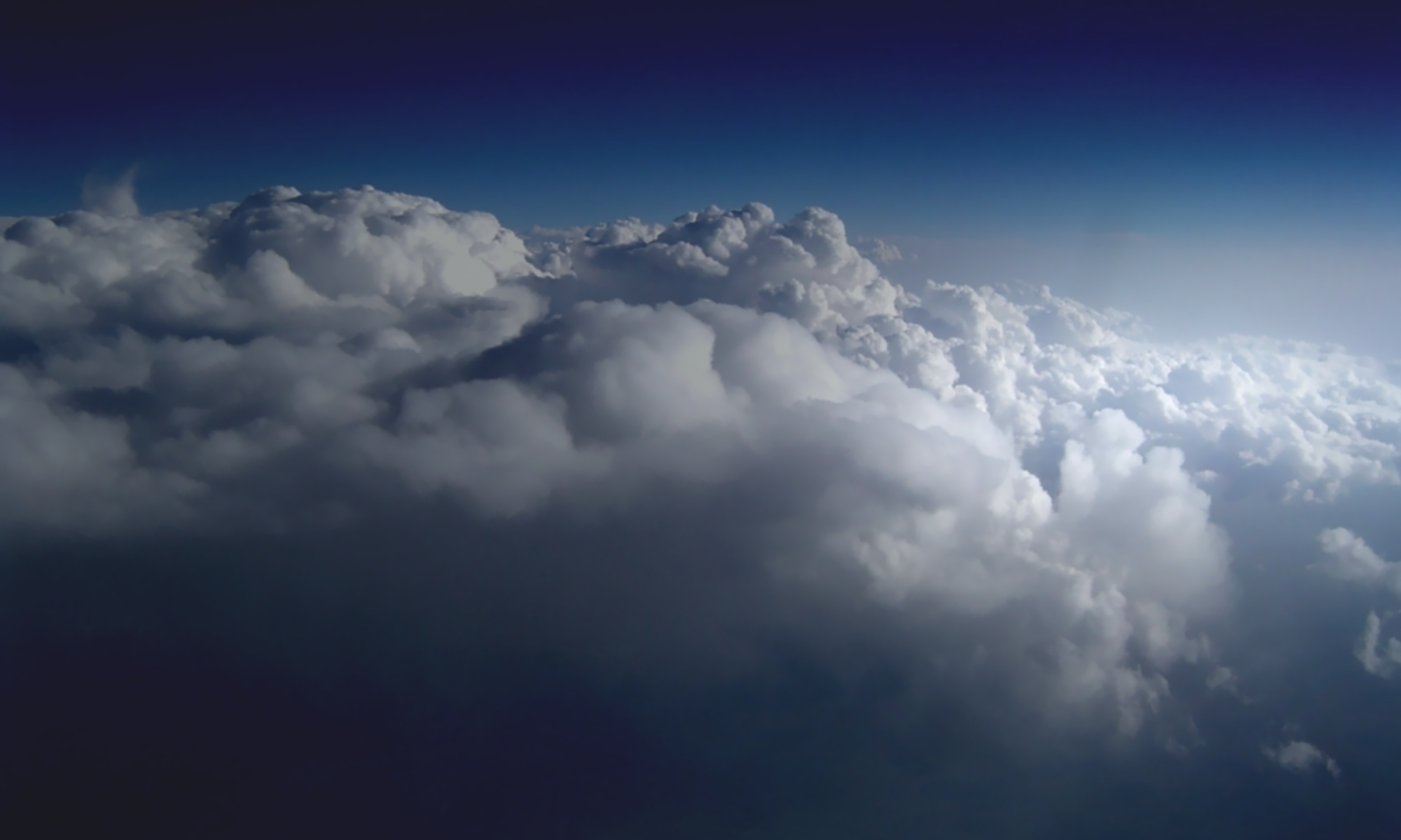 A color-enhanced version of an aerial photograph of Stratocumulus perlucidus clouds; taken from the rear seat of a Northwest Airlines Airbus A320 flying over the midwestern United States, en route from Los Angeles, CA to Minneapolis/St. Paul, MN.